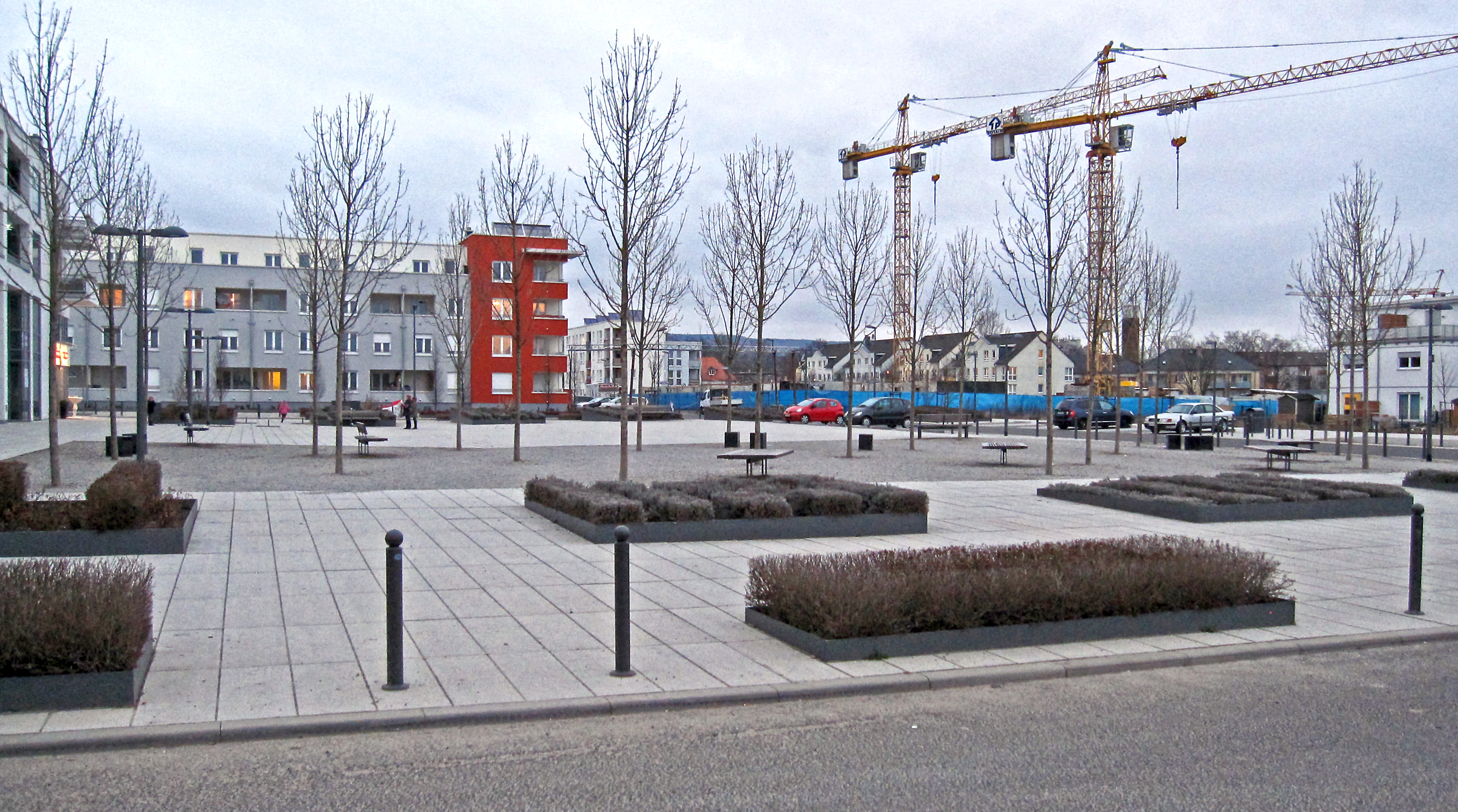 The Christa-Moering-Square in the Wiesbaden's district "Künstlerviertel" in March 2012.